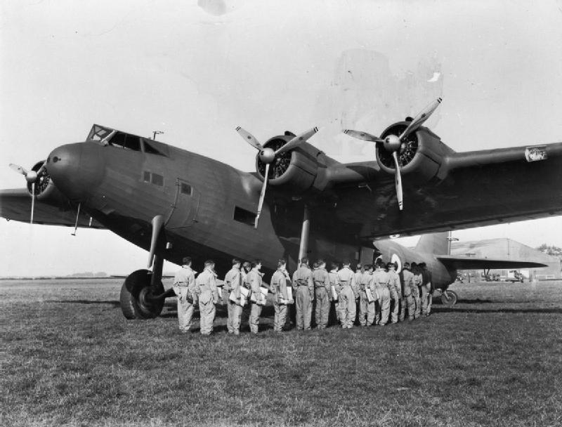 The Royal Air Force Training Command, 1939-1940. Pupils at No. 1 Air Observer and Navigation School prepare to board Fokker F.XXXVI, G-AFZR, for a training flight at Prestwick Ayrshire. G-AFZR (formerly PH-AJA of KLM) was purchased by the RAF in 1939 as a navigation trainer, being flown and maintained by Scottish Aviation Ltd, Prestwick, under its civil registration. It crashed on take off from Prestwick on 21 May 1940.